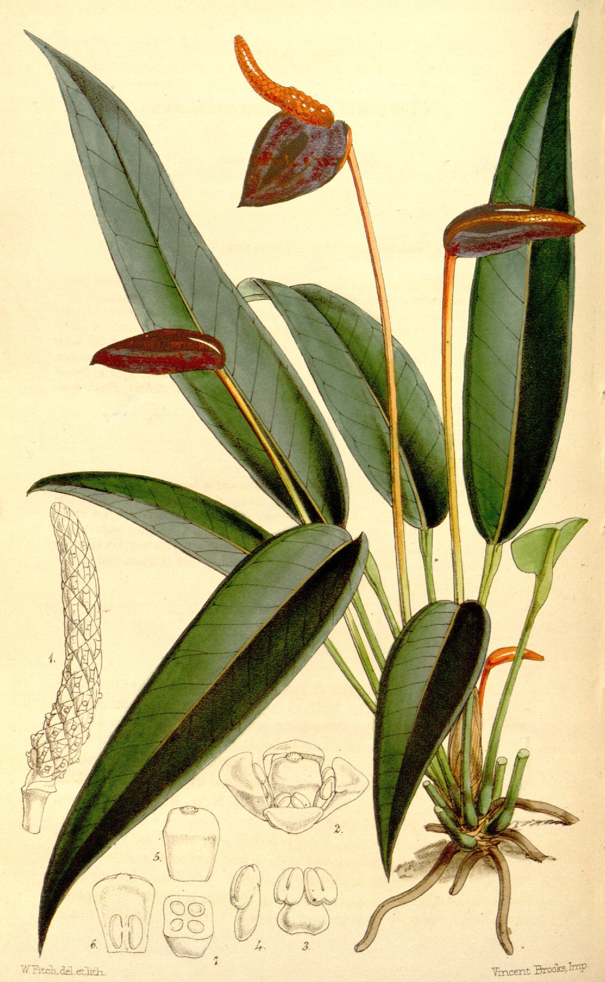 Anthurium scherzerianum botanical drawing